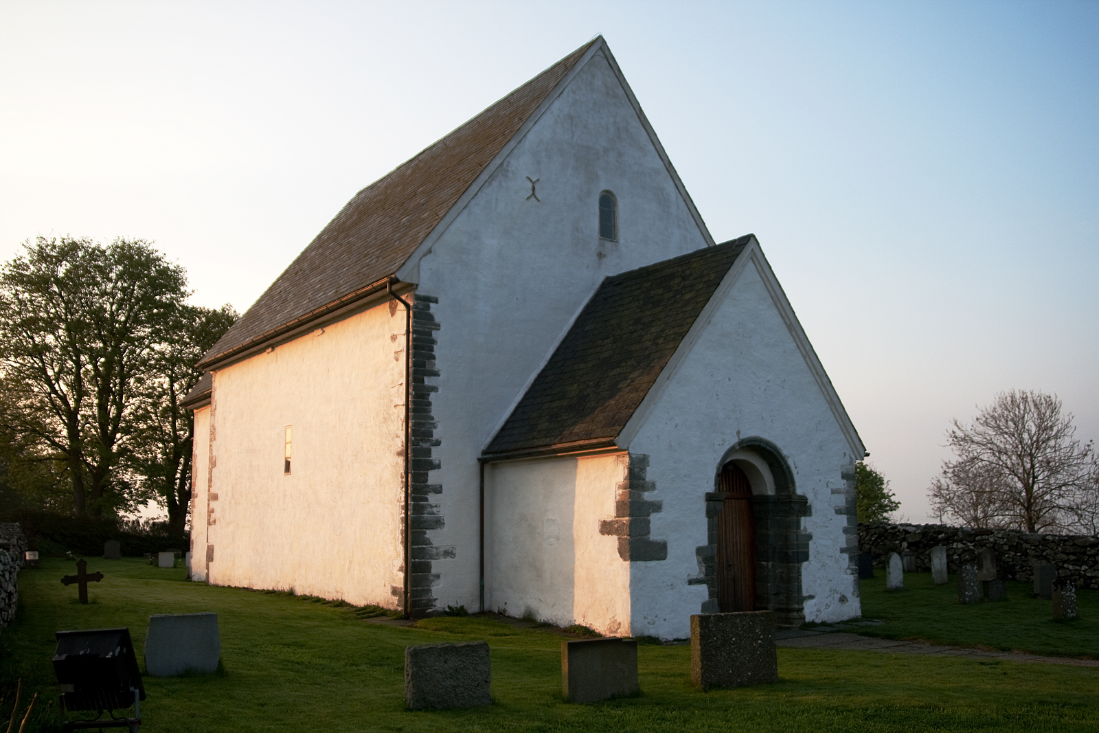 Picture of Talgje kyrkje